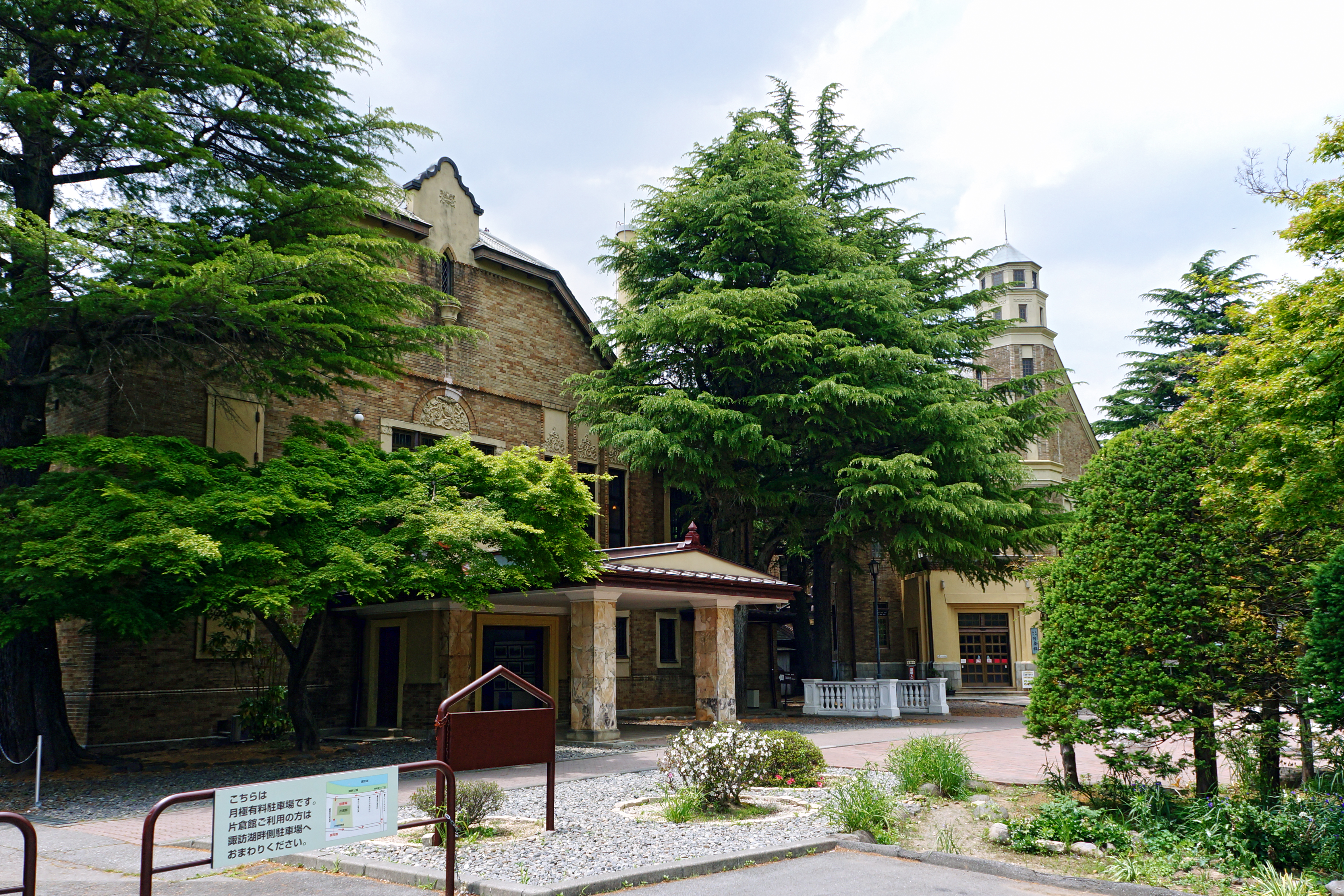 Katakurakan in Suwa, Nagano prefecture, Japan.